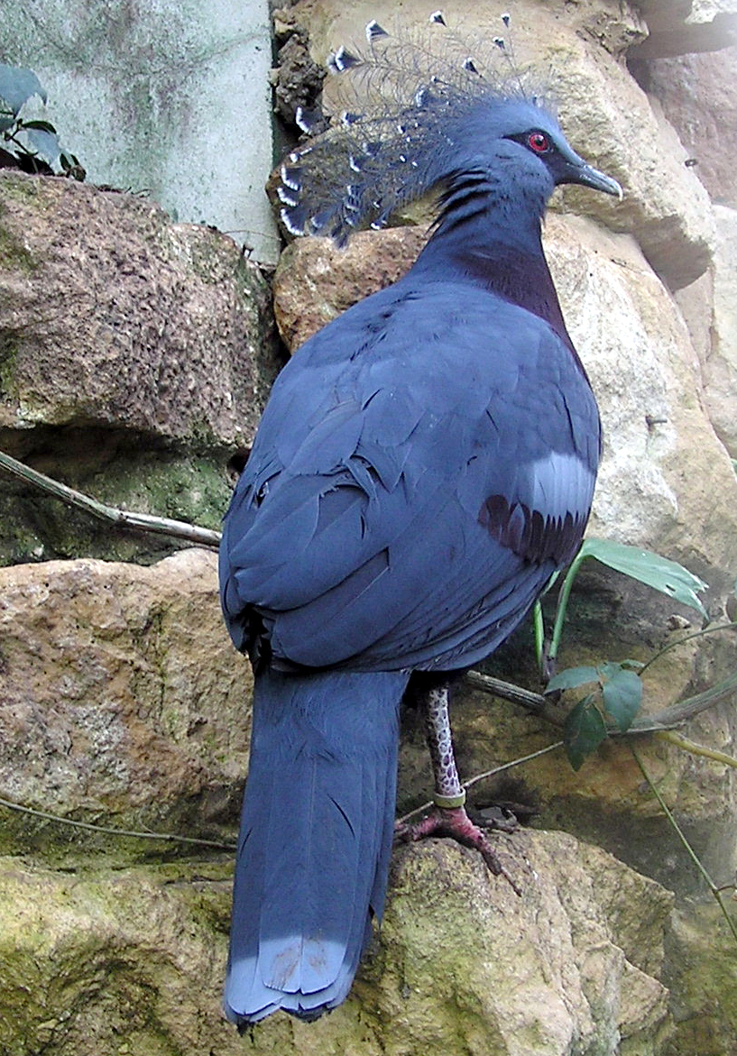 Victoria Crowned Pigeon at Bristol Zoo, Bristol, England. Photographed by Adrian Pingstone in February 2005 and released to the public domain.